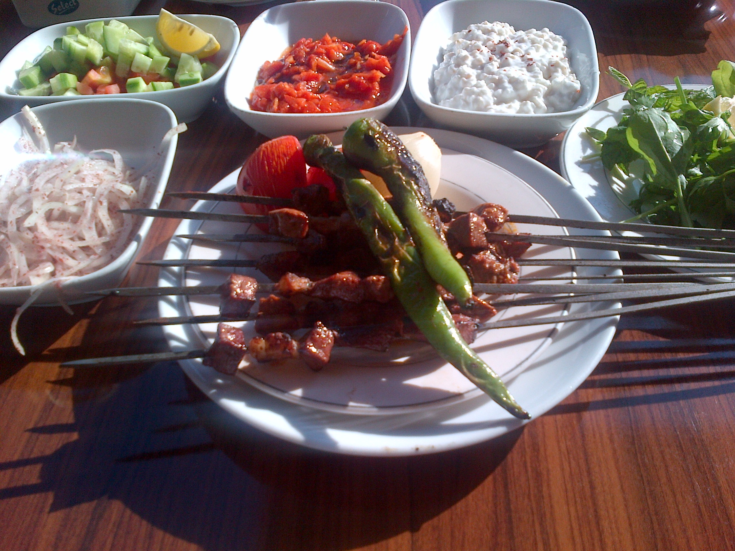 "Ciğer kebap", "Ciğer kebabı", o "Ciğer şiş (kebap)" is skewer-grilled liver from the Turkish cuisine, a specialty of the south-eastern cuisine. (In Istanbul and the other large cities, liver is made at home as a "yahni" -stew or sautée with onions- or as "Arnavut ciğeri, a cold meze dish. At Edirne, the northwestern city in European Turkey, liver is cut in large flakes and deep-fried.) All the accompanying small dishes seen in the picture are offered "on the house" at this Ankara restaurant or "kebapçı".